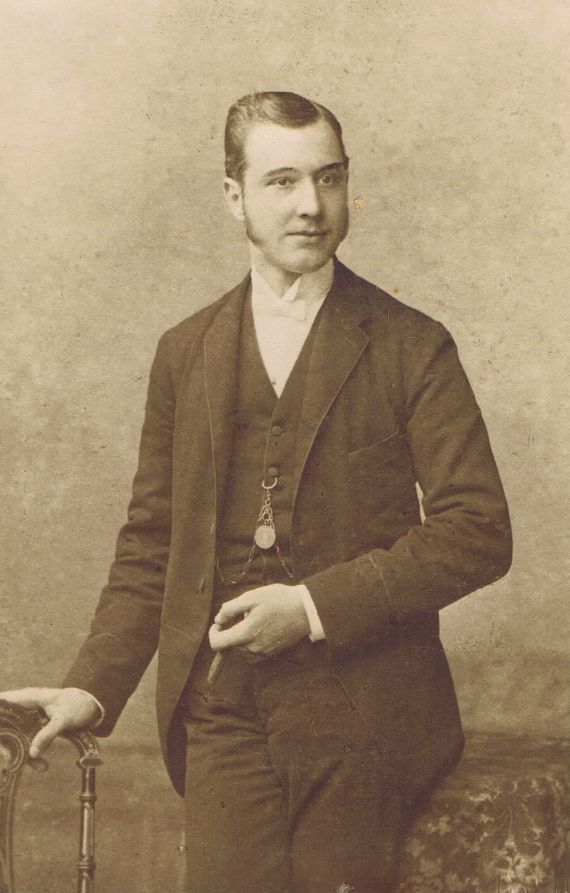 Cuban, industrialist, Founder of Colores Hispania SA, Barcelona, son of Fernando Heydrich Klein